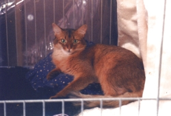 Somali, brown